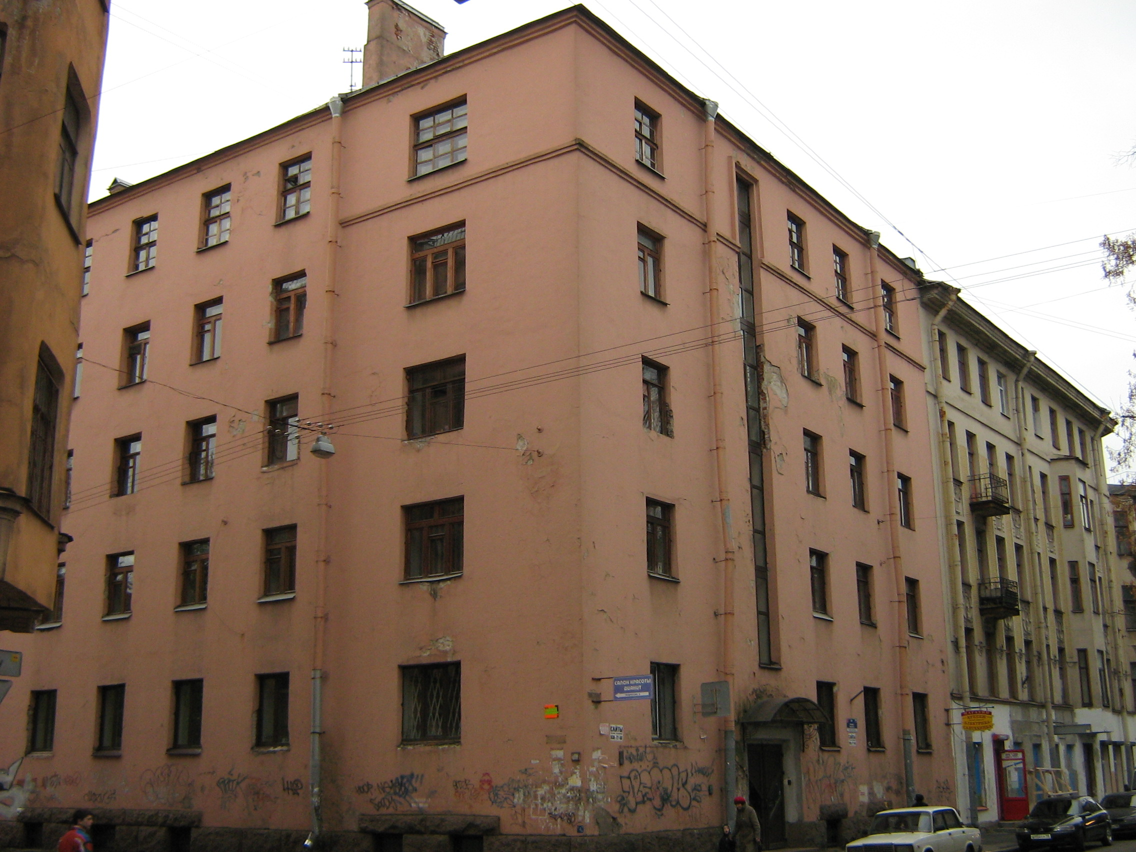 69, Maly Prospect P.S. (Small avenue of the Petrograd side) / 14, Podrezova street, Saint-Petersburg, Russia.